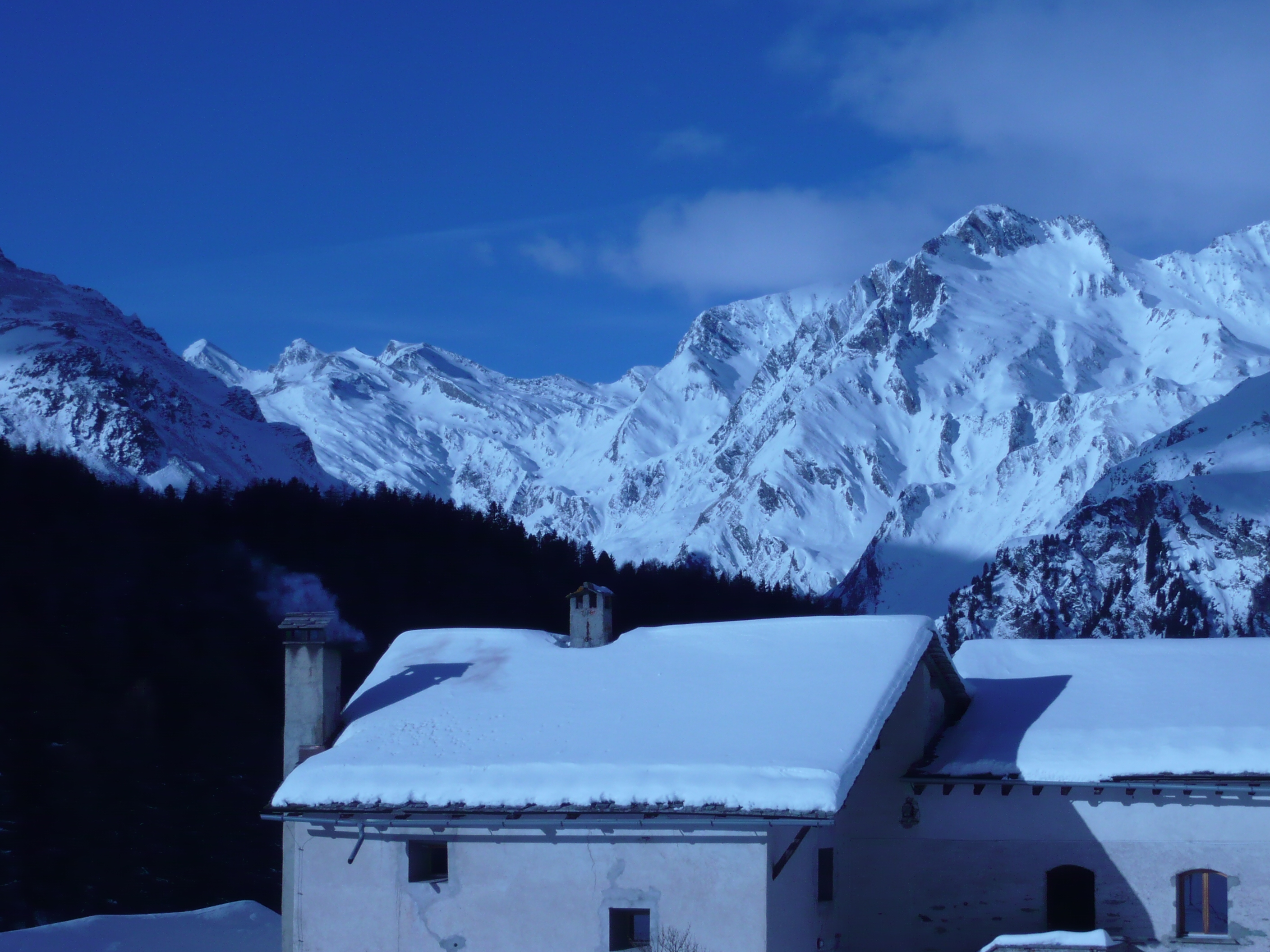 Guest house Salecina (Maloja, Switzerland) in snow and magnificant panorama of Val Maroz summits.